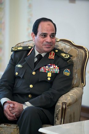 Abdel Fattah el-Sisi as a Field Marshal during a visit to Russia.